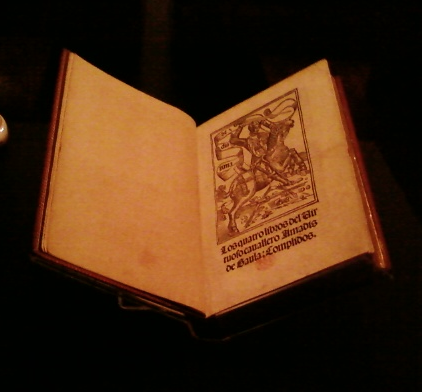 Title page of the earliest known edition of Amadís de Gaula, 1508, in the British Library. The text was written in the fifteenth century.